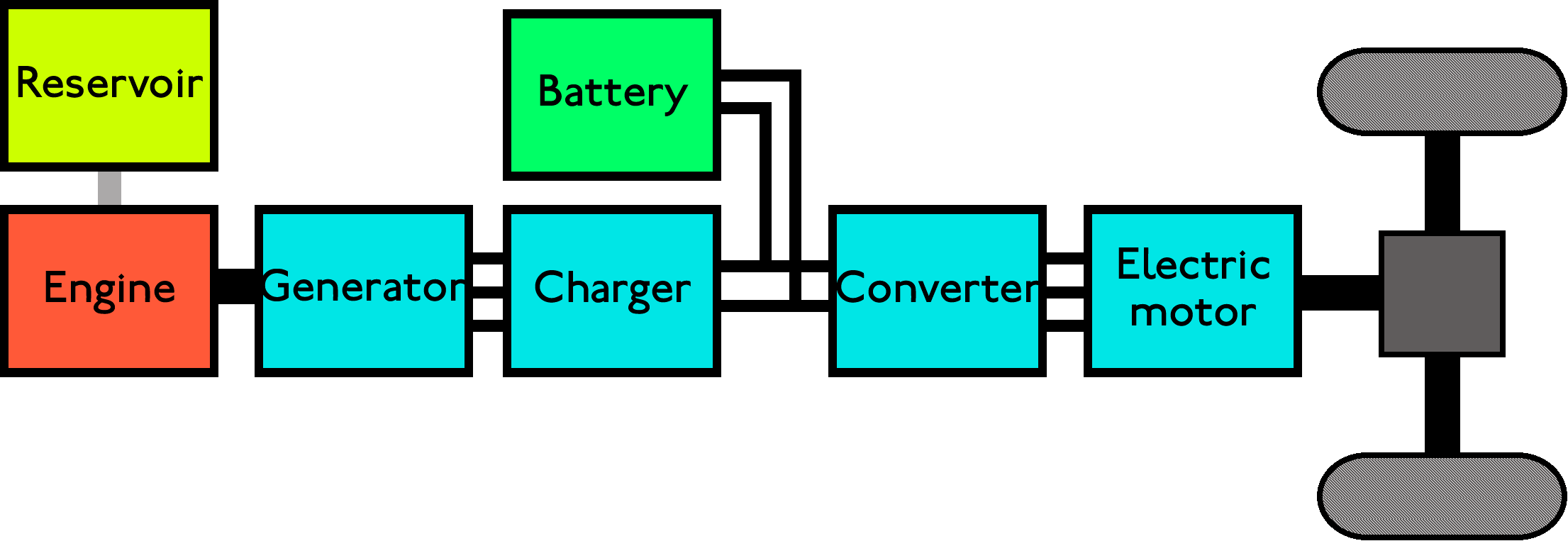 Structure of a series hybrid vehicle. Designed by Peter Van den Bossche.